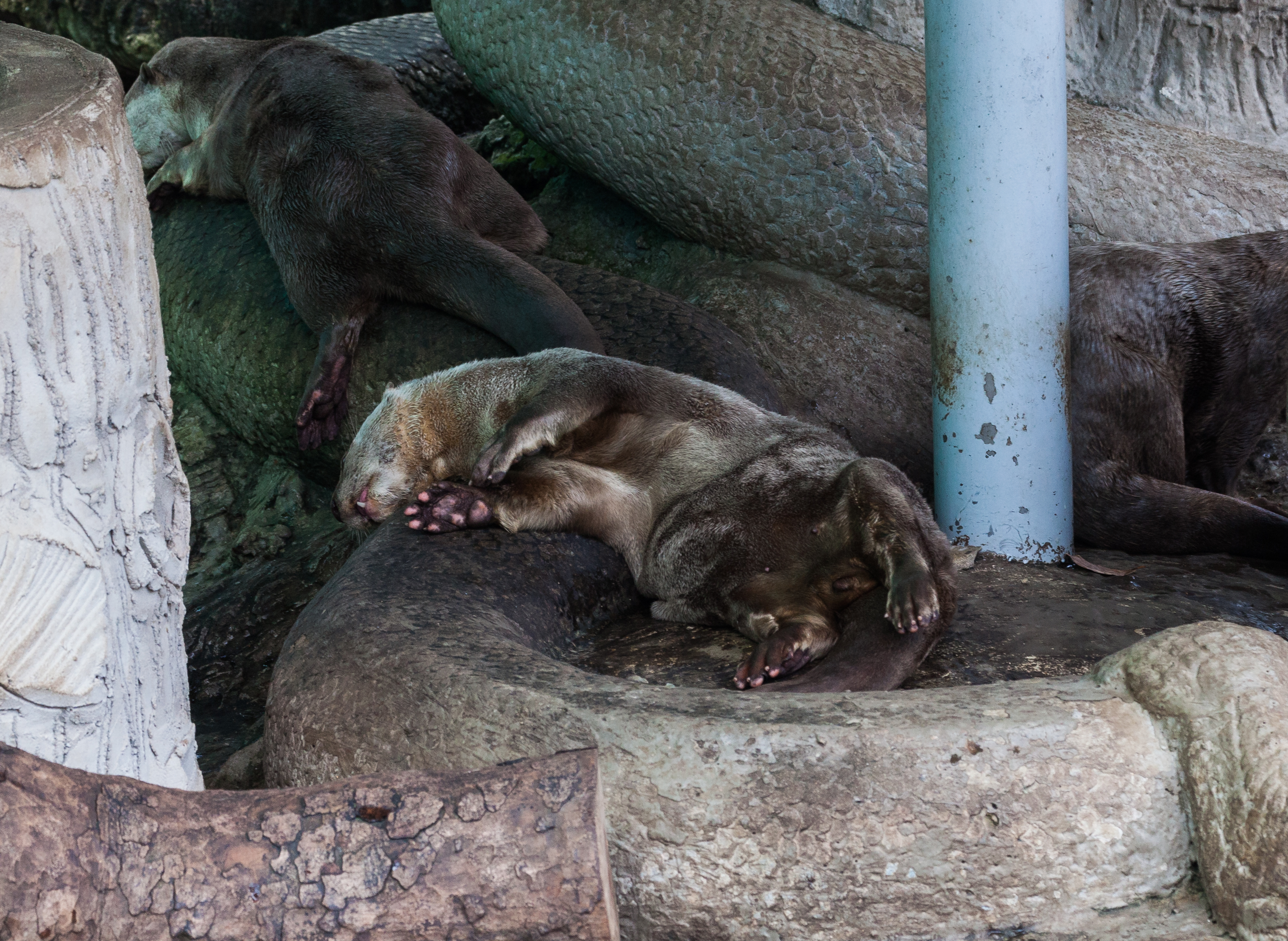 Smooth-coated otter (Lutrogale perspicillata), Ho Chi Minh City Zoo, Vietnam